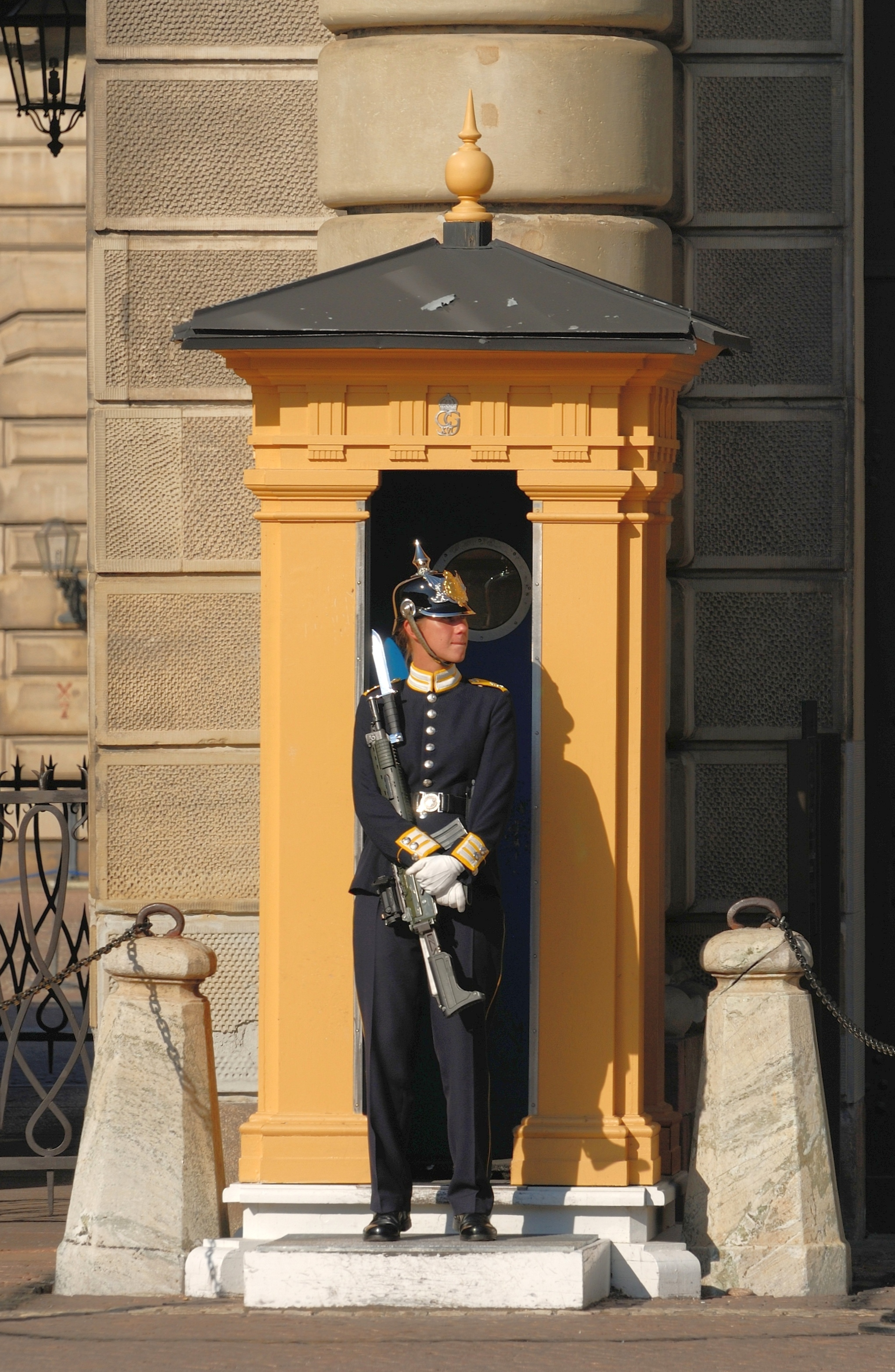 Life Guard (Swedish Army), Stockholm